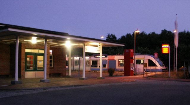 Bahnhof/station of Bad-St-Peter-Ording Photographed by me .